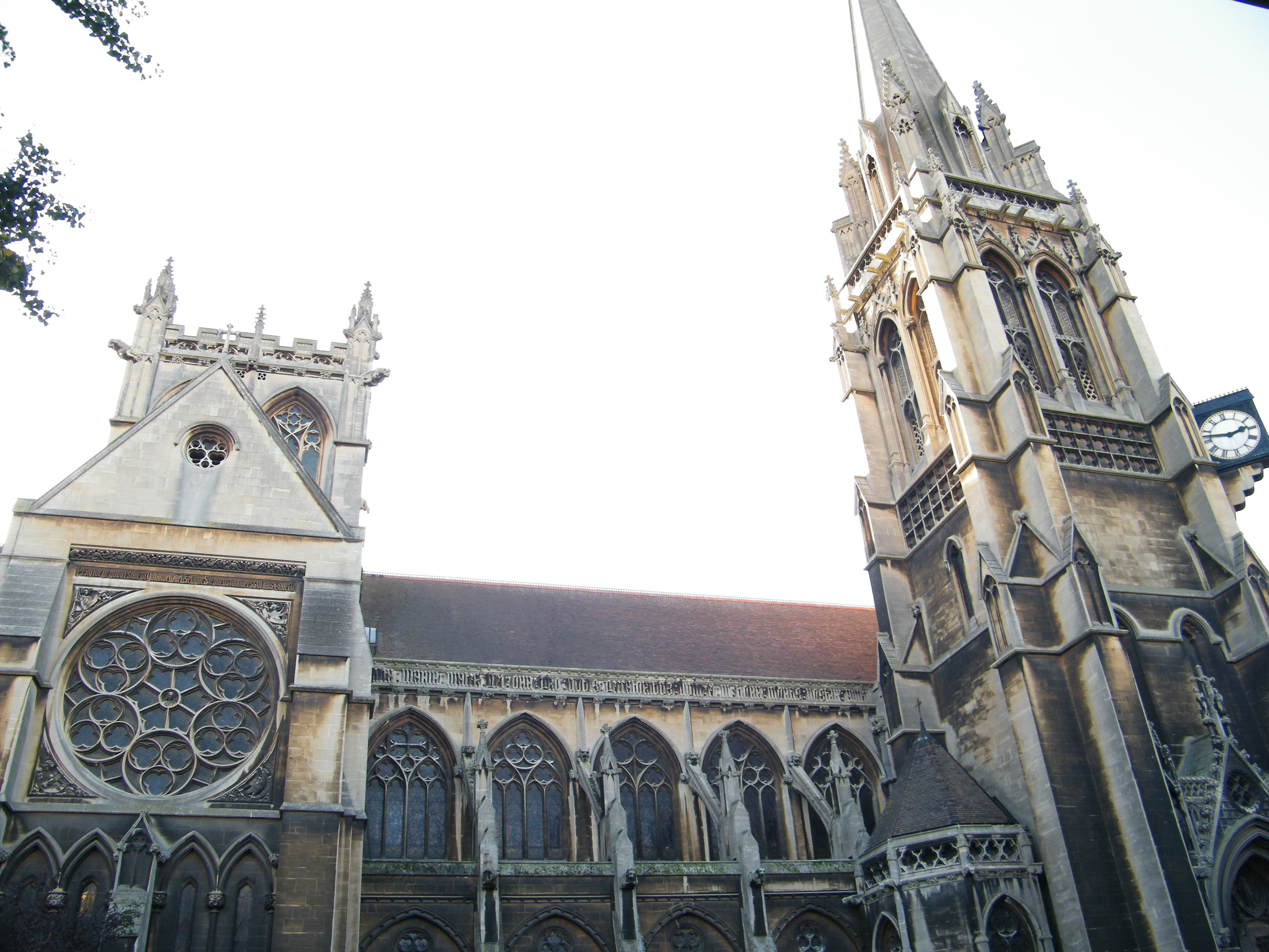 East side of Our Lady and the English Martyrs Church, Cambridge, UK